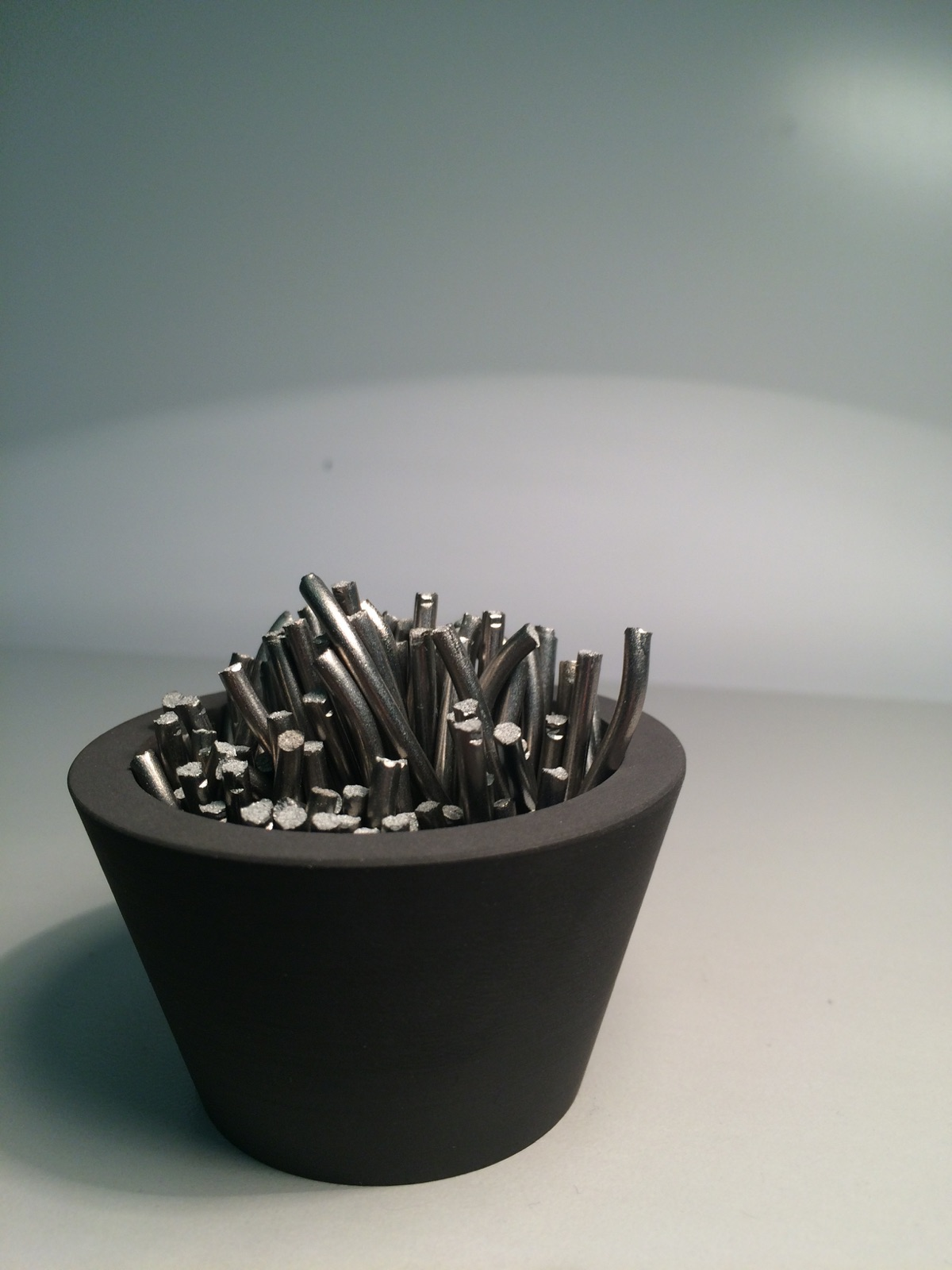 The graphite crucible with the hafnium before being placed in a vacuum chamber for deposition onto the substrate